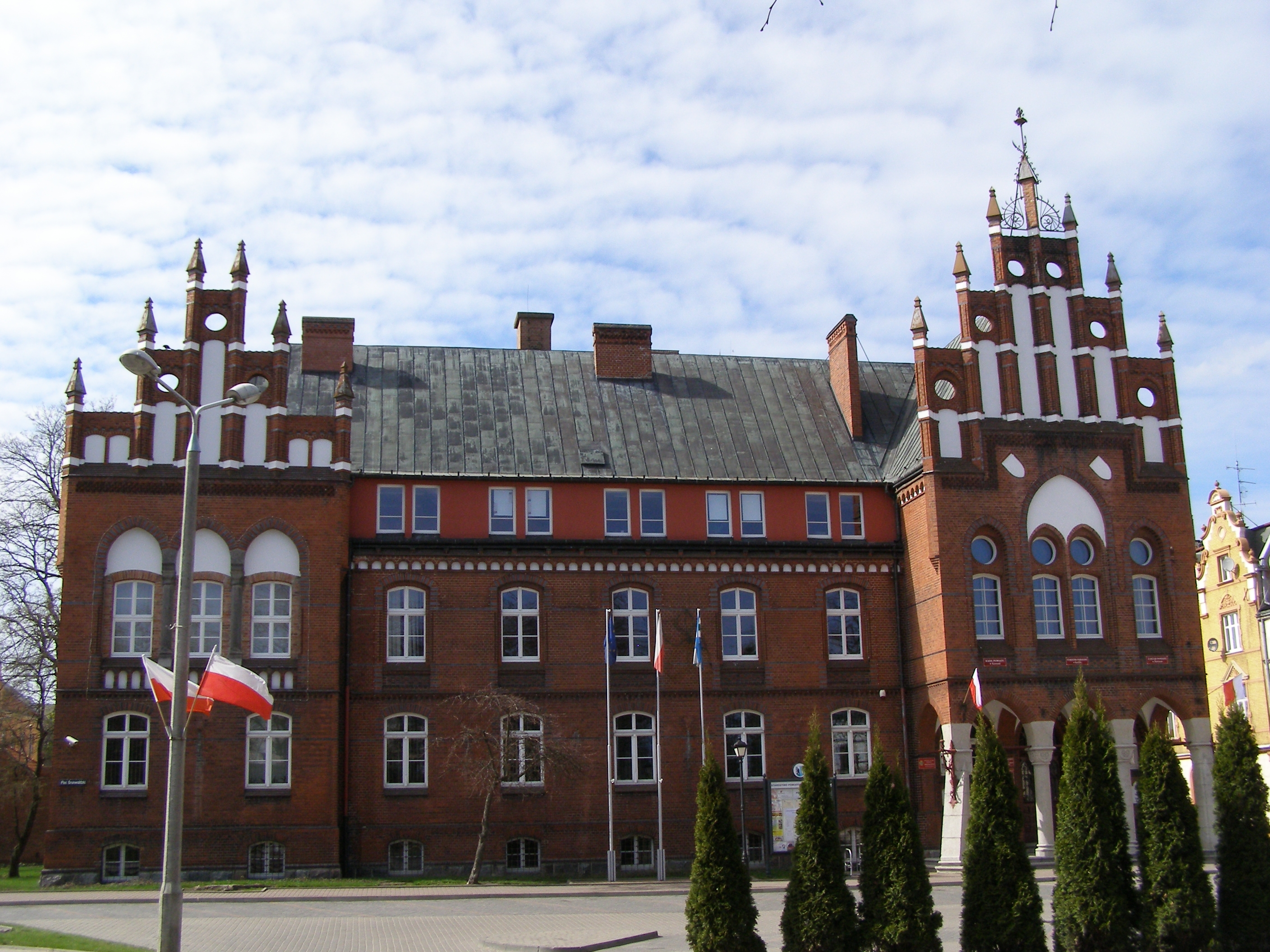 Kętrzyn - powiat office